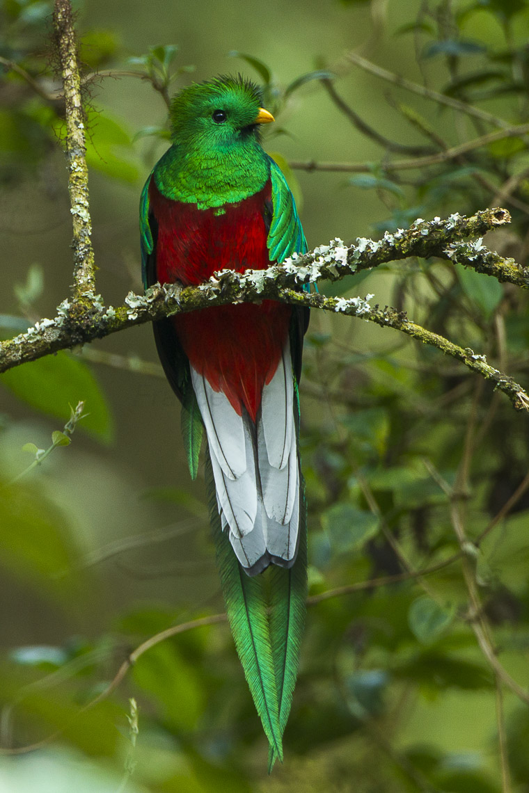 Resplendent Quetzal male Pharomachrus mocinno - Cloud Forest in Costa Rica.